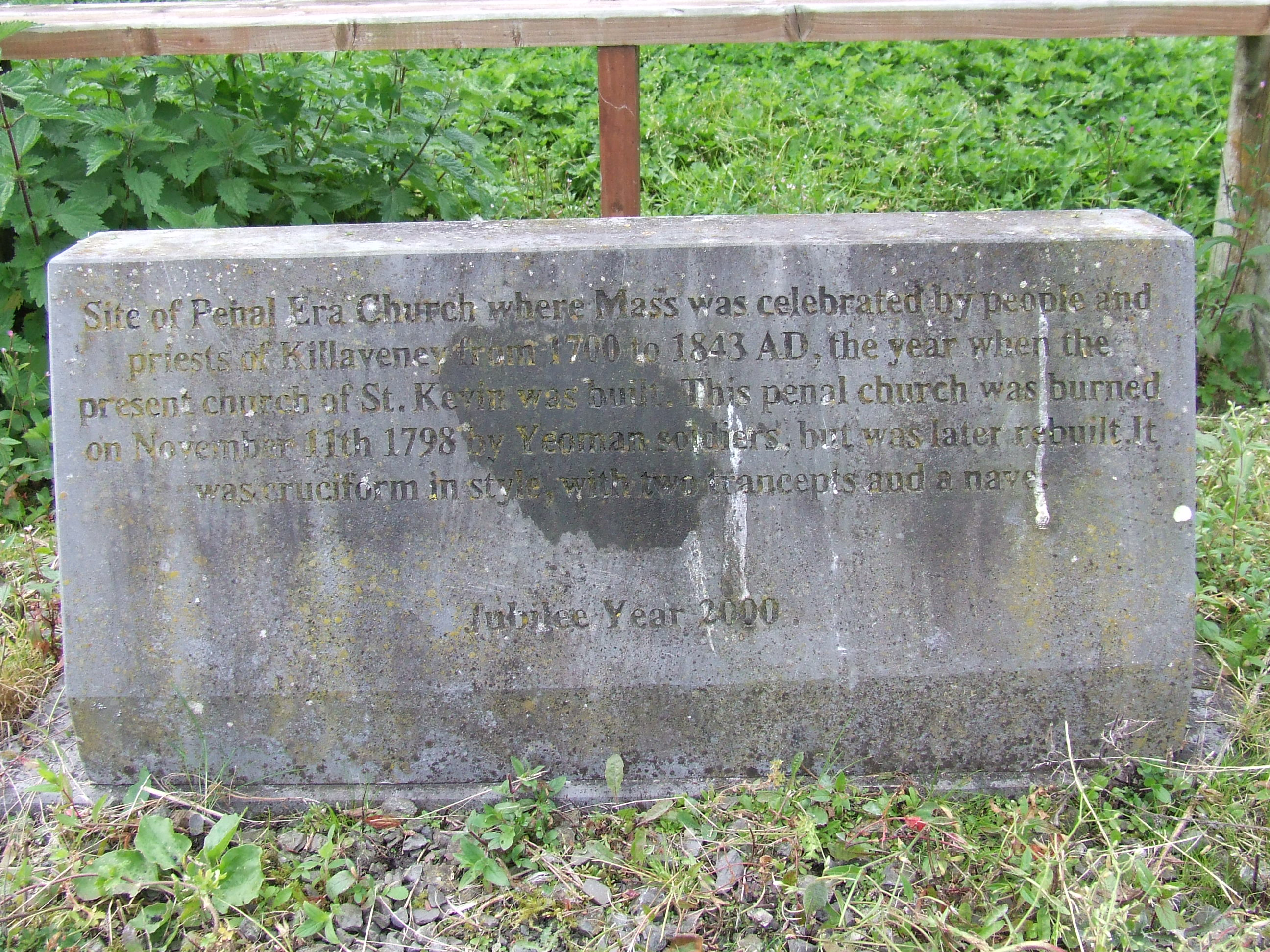 Commemorative marker stone in Whitefield Cemetery, Tinahely, County Wicklow. Located in Kilaveny parish. Gives the history of the church from 1700 to 1846. Erected in Jubilee Year 2000.